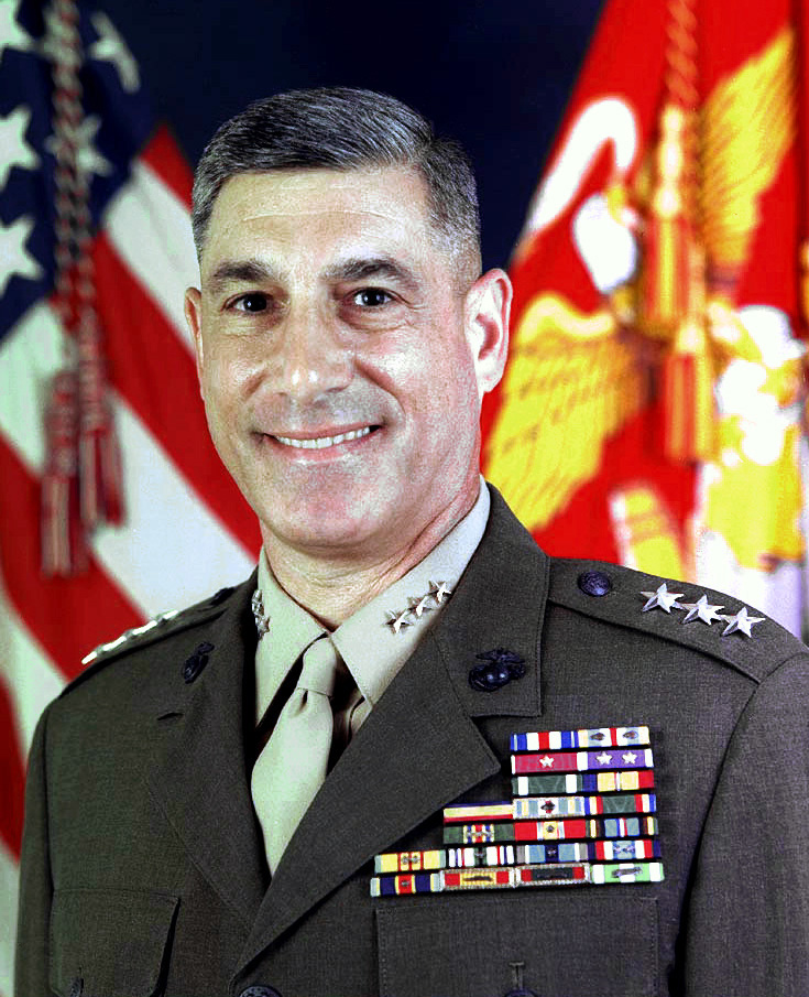 Official Photo of US Marine Lieutenant General Frank Libutti. This image was taken on August 1st, 1997, at Marine Corps Base, Camp Smedley D. Butler, Okinawa, Japan.